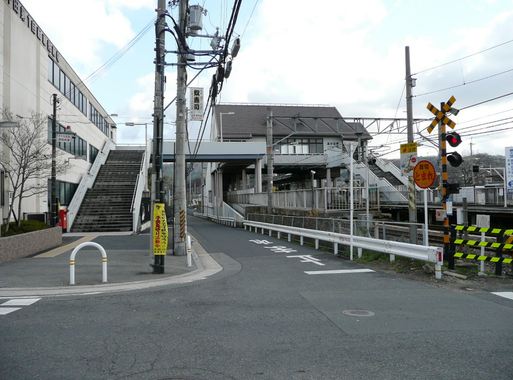 West Japan Railway,Kansai Mein Line,Takaida Station north entrance. / 関西本線高井田駅北口